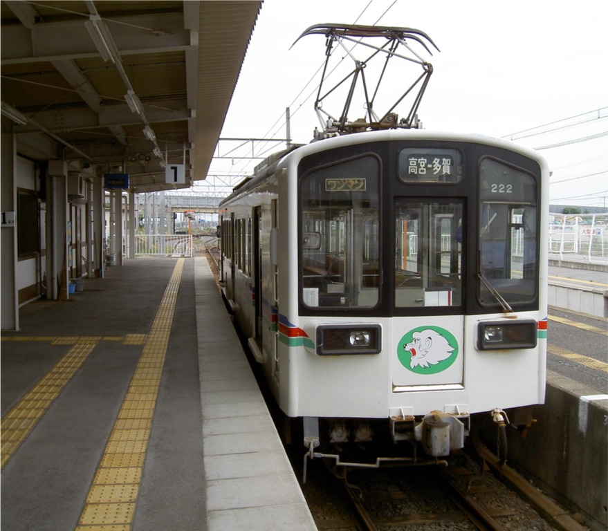 Ohmi Railway 220 series EMU car 222 at Taga Taisha-mae Station